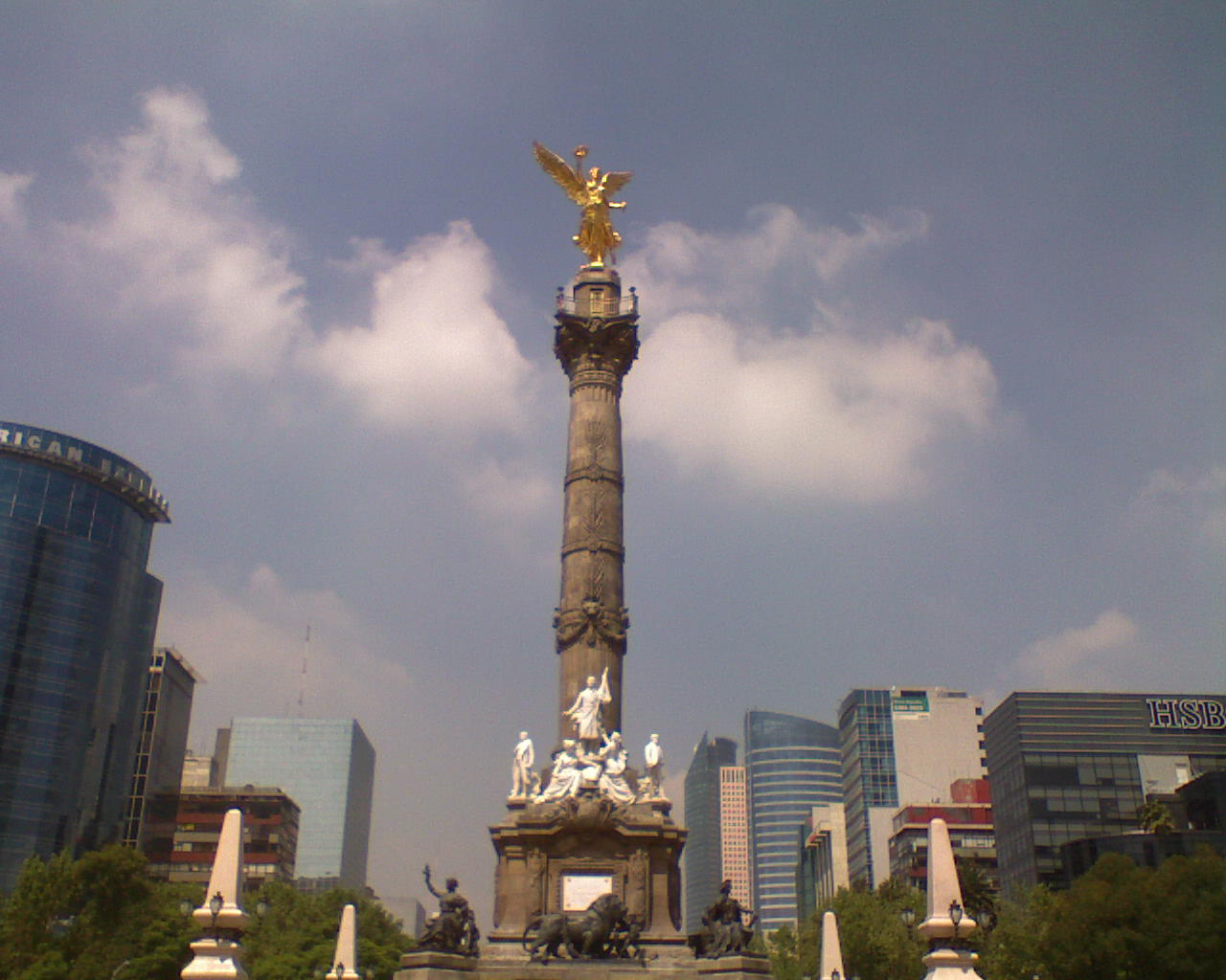 The Angel of Independence